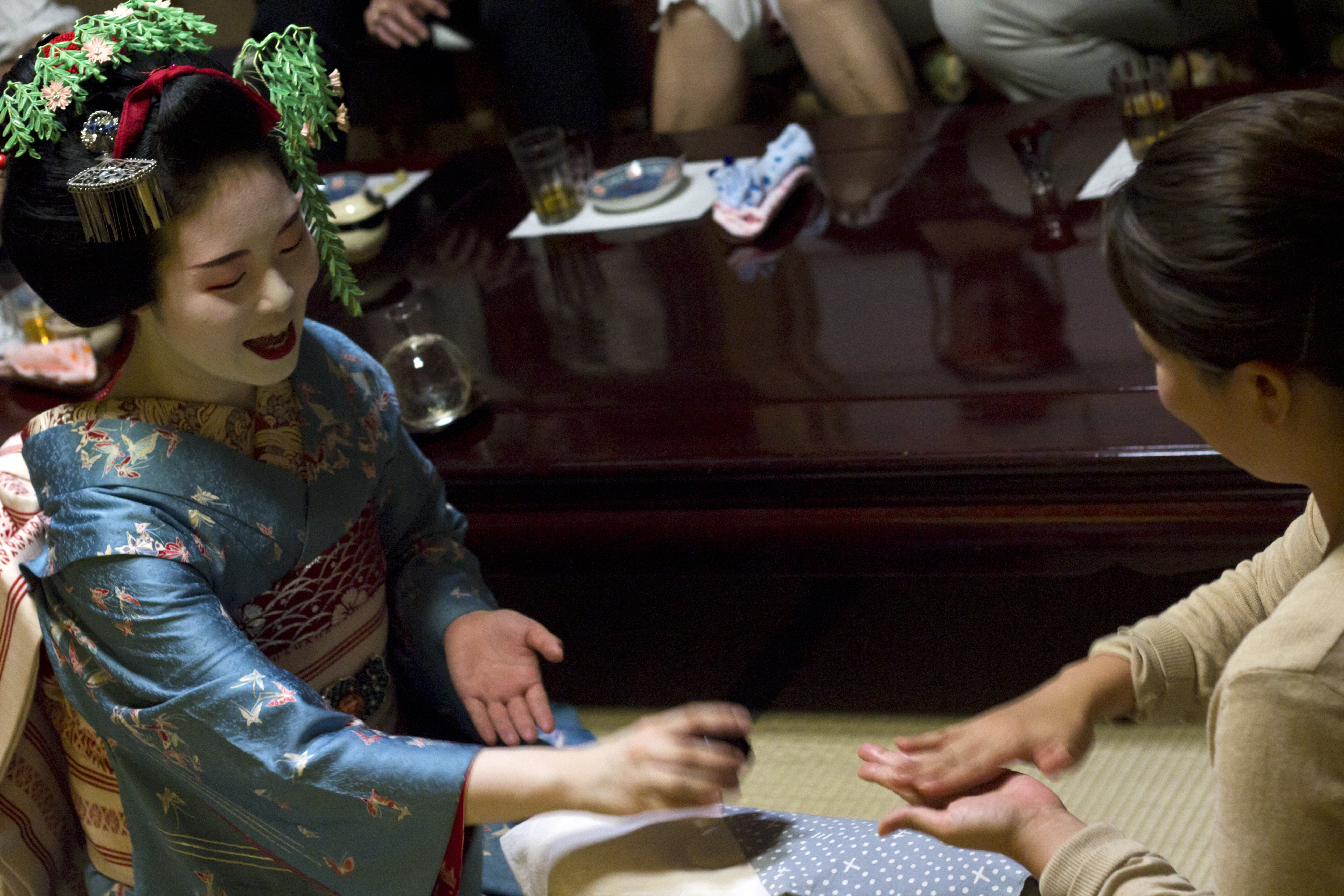 A Japanese female client plays the rhythm game "Konpira Fune Fune" with the maiko Tomitsuyu at an ochaya